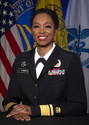 Rear Admiral Erica G. Schwartz, M.D., J.D., M.P.H.Deputy Surgeon General of the United States